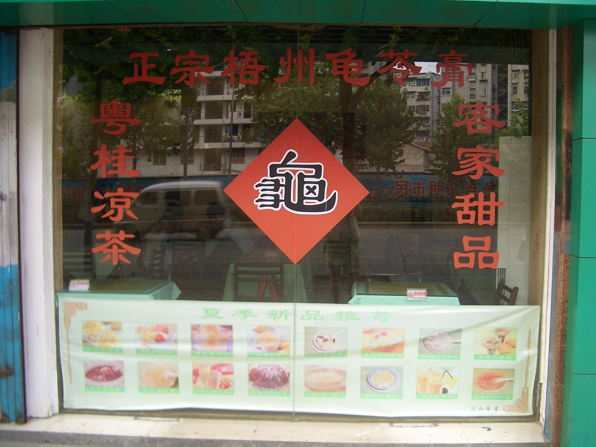 A restaurant in Hankou (Wuhan) advertises "Genuine Wuzhou Guilinggao" (正宗梧州龟苓膏), "Guangdong/Guangxi liang cha" (粤桂凉茶, "cold" herbal tea), and "Hakka sweets" (客家甜品). The big character in the middle of the window is 龟 (turtle) in its traditional form.